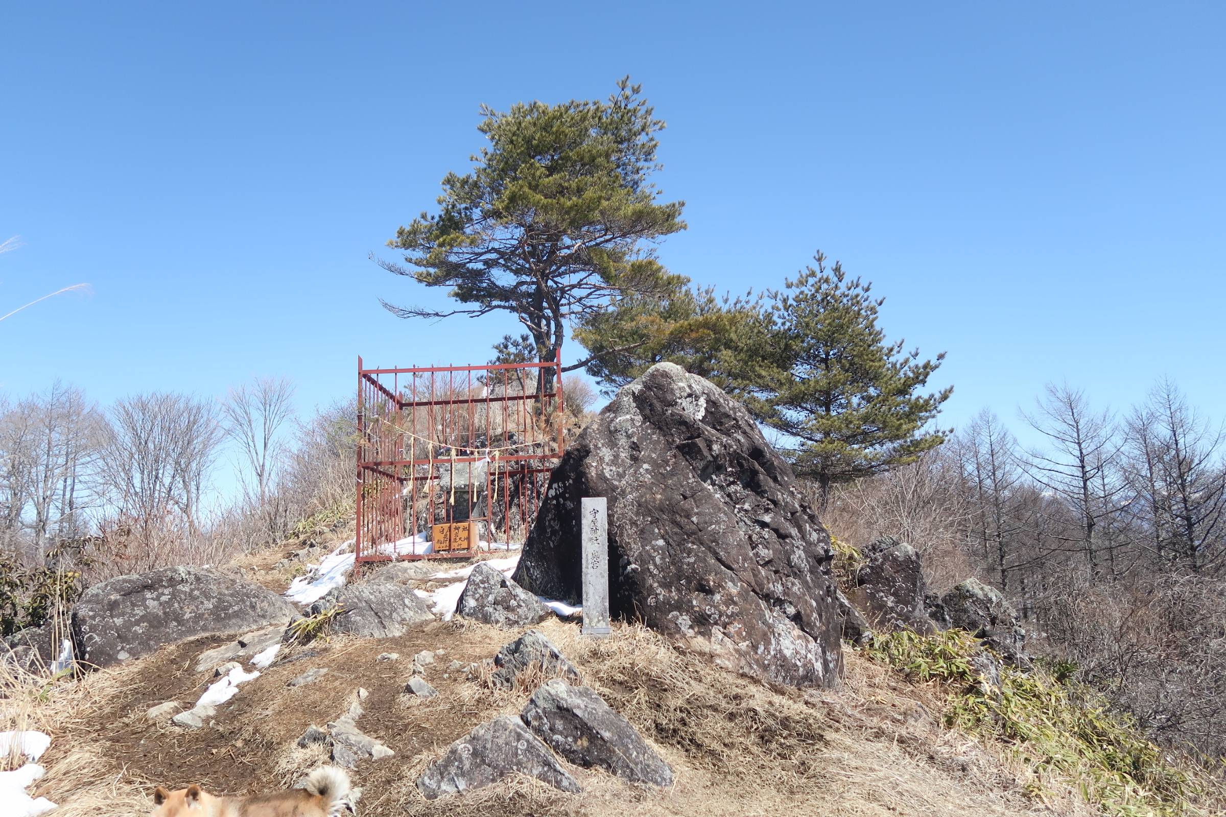 A small shrine or hokora to Mononobe no Moriya at the eastern peak of Mount Moriya in Nagano Prefecture.